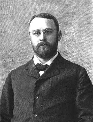 The Historical Register ... Illustrated with Portrait Plates By Edwin Charles Hill Published by E.C. Hill, 1921